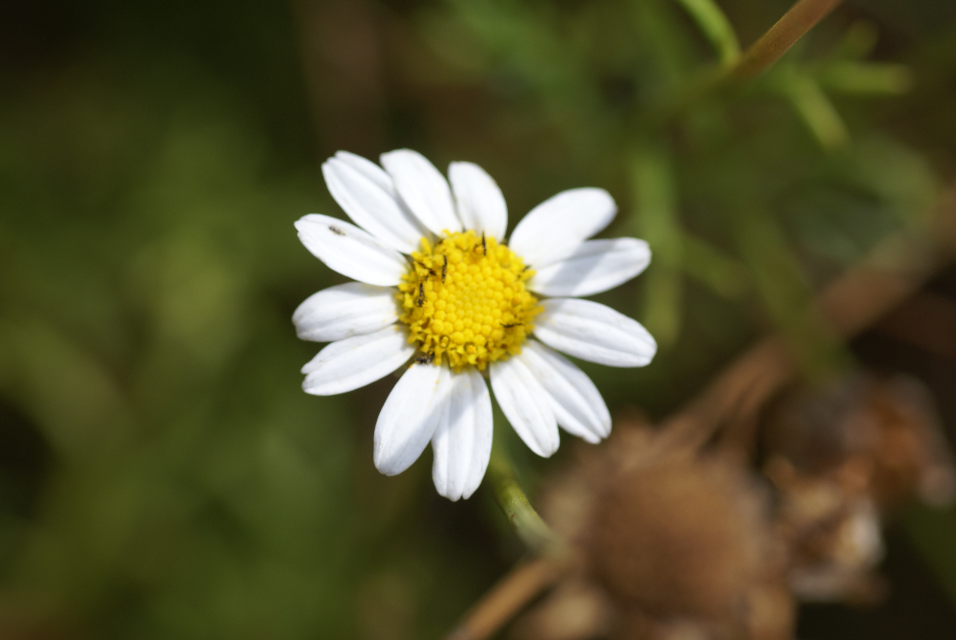 Flower of species Argyranthemum foeniculaceum in garden at Heyerdahl's museum on Tenerife